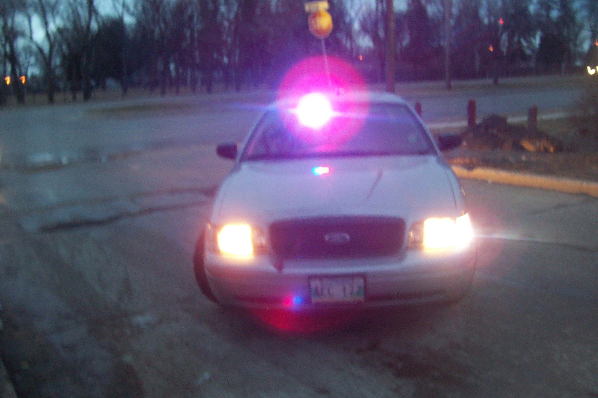 Unmarked cruiser.